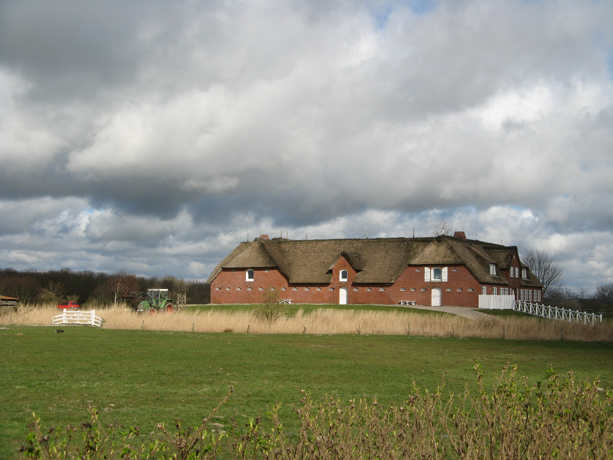 Hof Seebüll Author: Dirk Ingo Franke